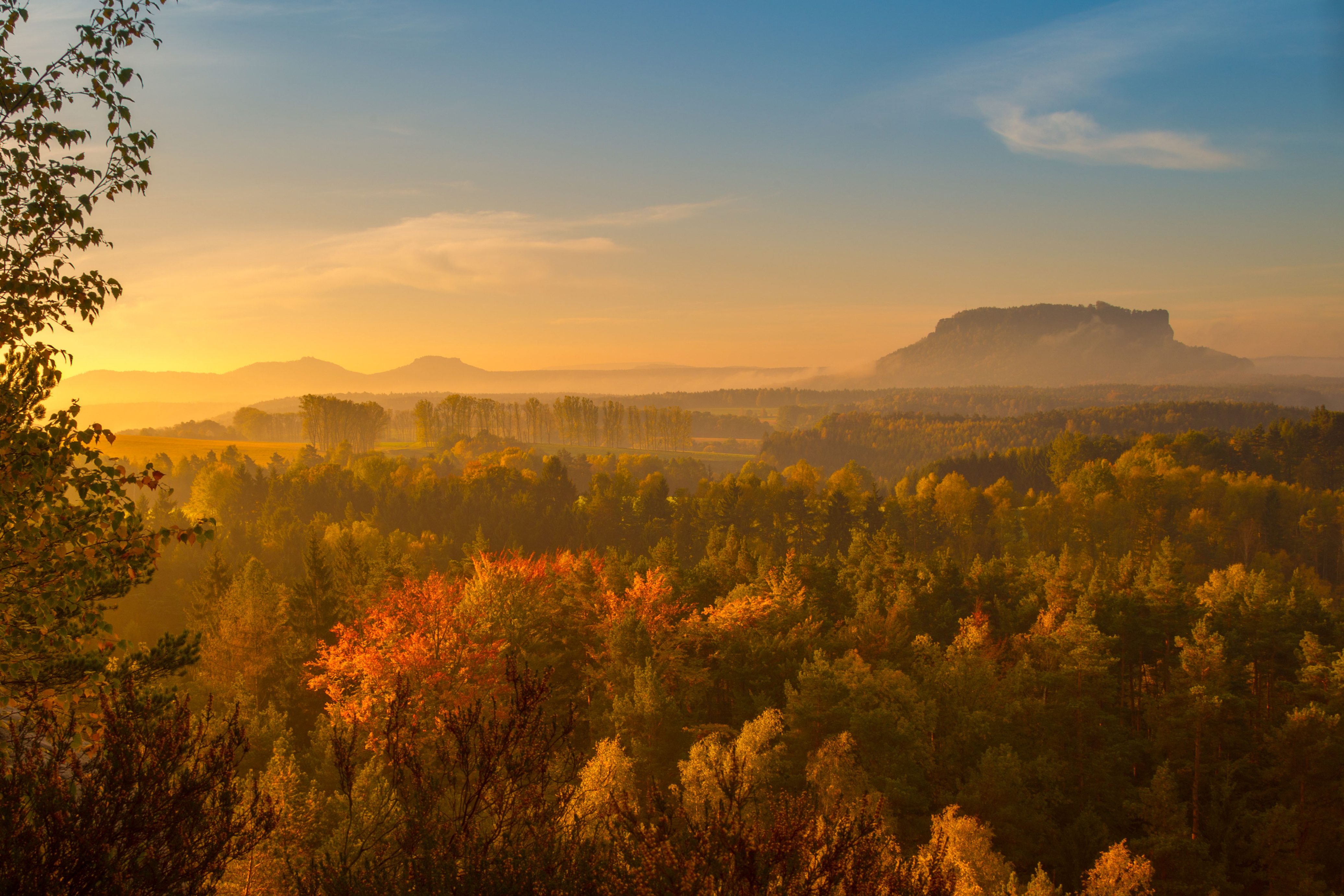 View from the Gamrig to the Lilienstein at Saxon Switzerland National Park, after sunrise.